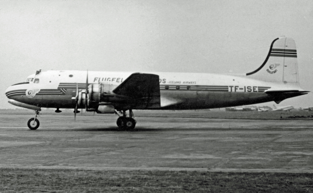 Flugfelag Islands Douglas C-54A Skymaster TF-ISE "Gullfaxi" at London Heathrow on the scheduled service from Reykjavik